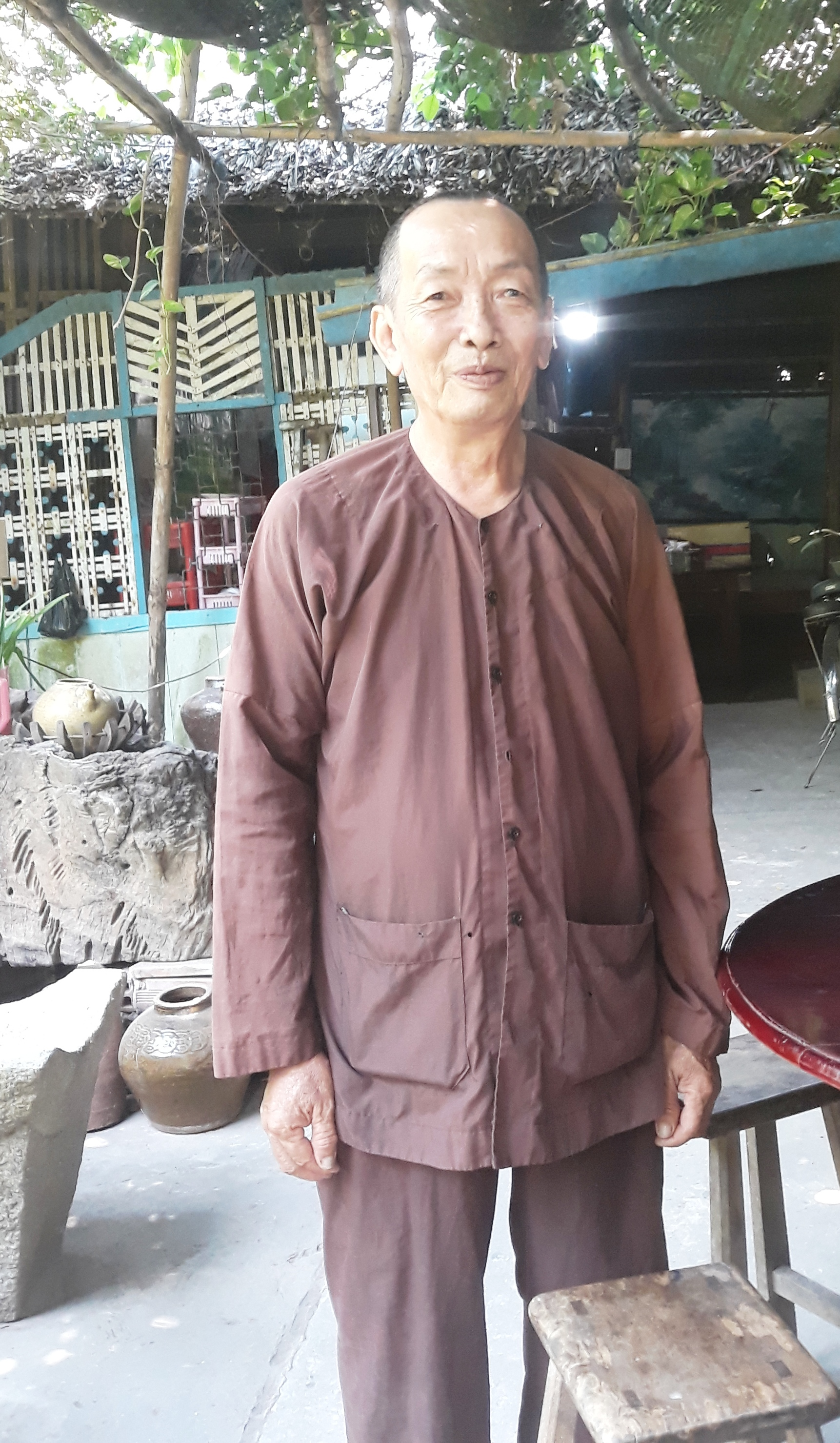 Peasant in áo bà ba